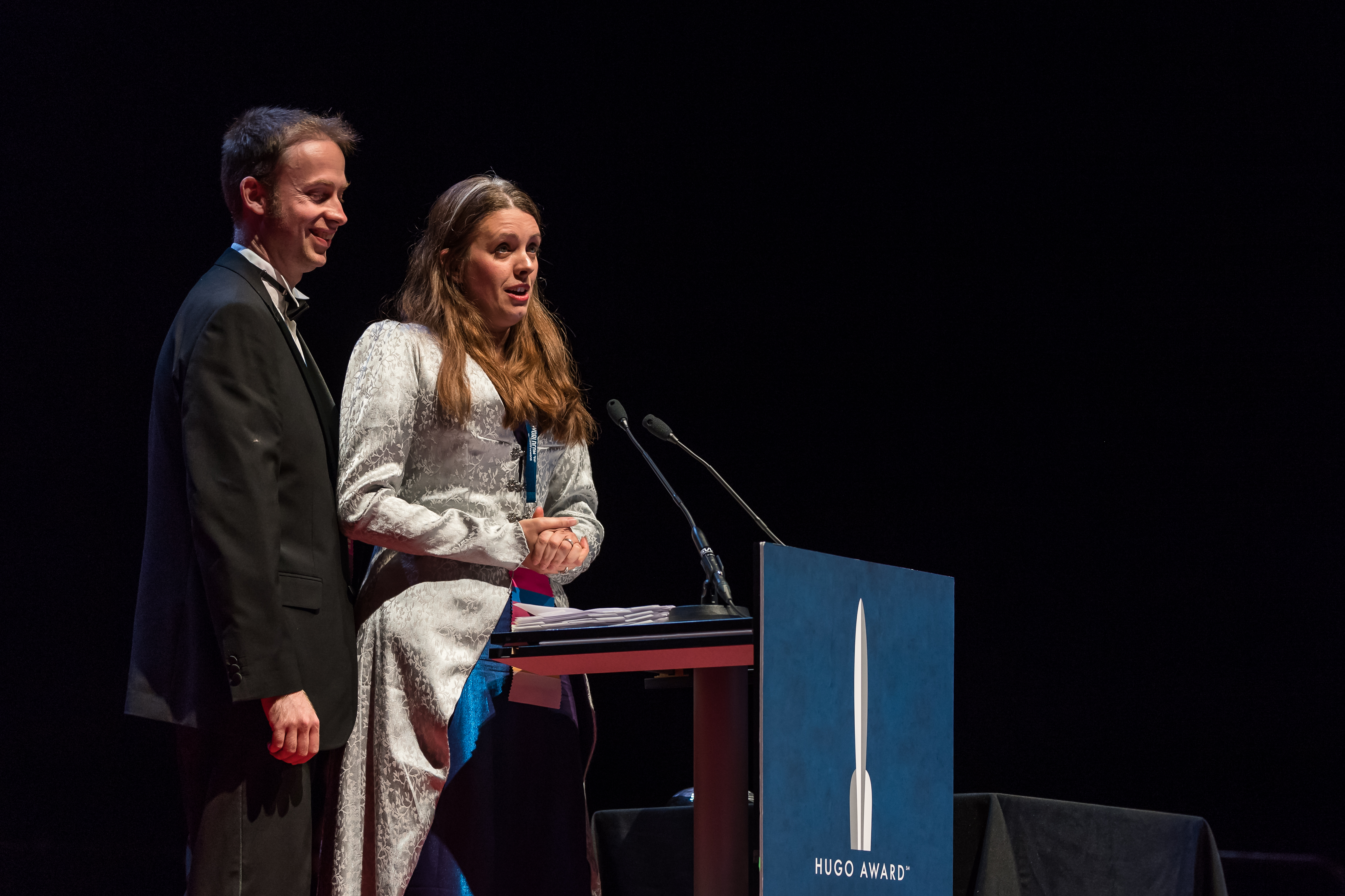 Winners in the Best Podcast category – Peter Newman and Emma Newman.